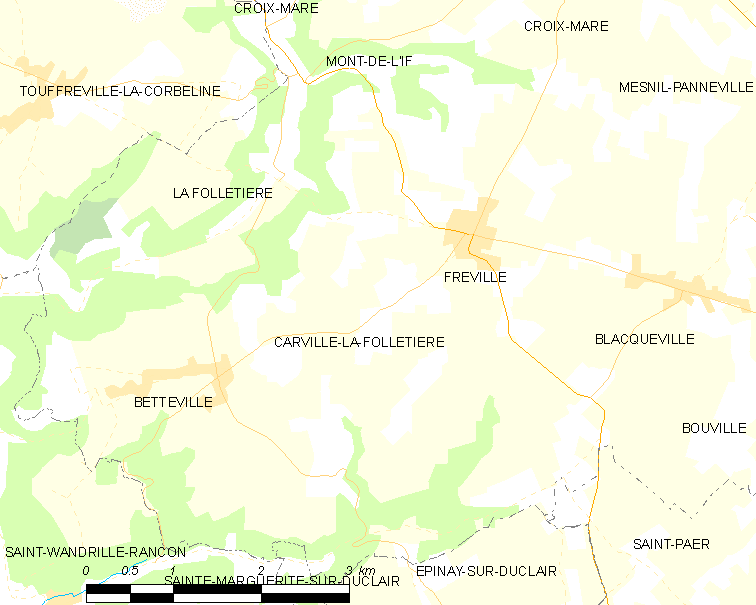 Map of French municipality Carville-la-Folletière